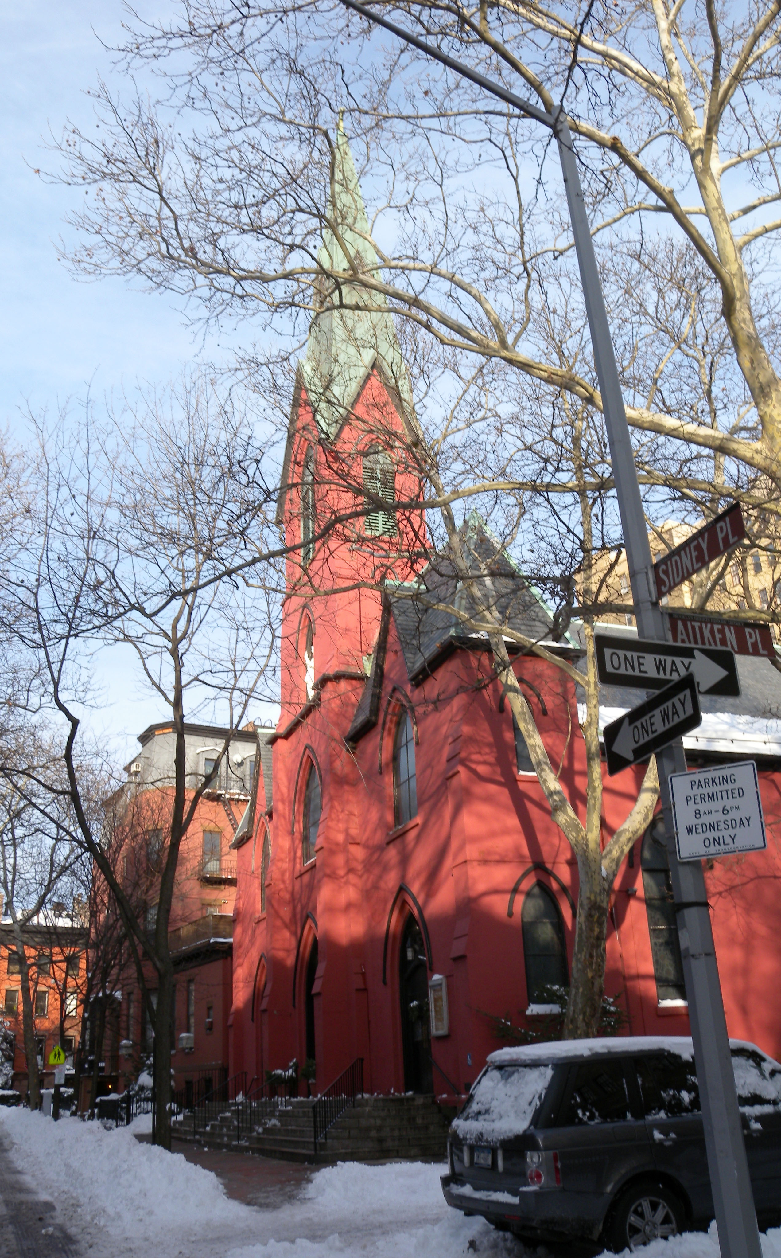 Looking north along Sidney Street and across Aitken Street at Charles Borromeo Roman Catholic Church on a sunny afternoon after snowfall.